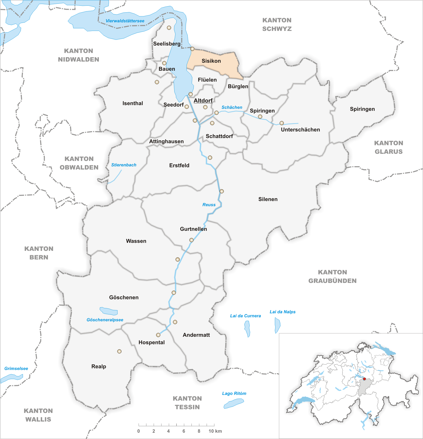 Municipality Sisikon